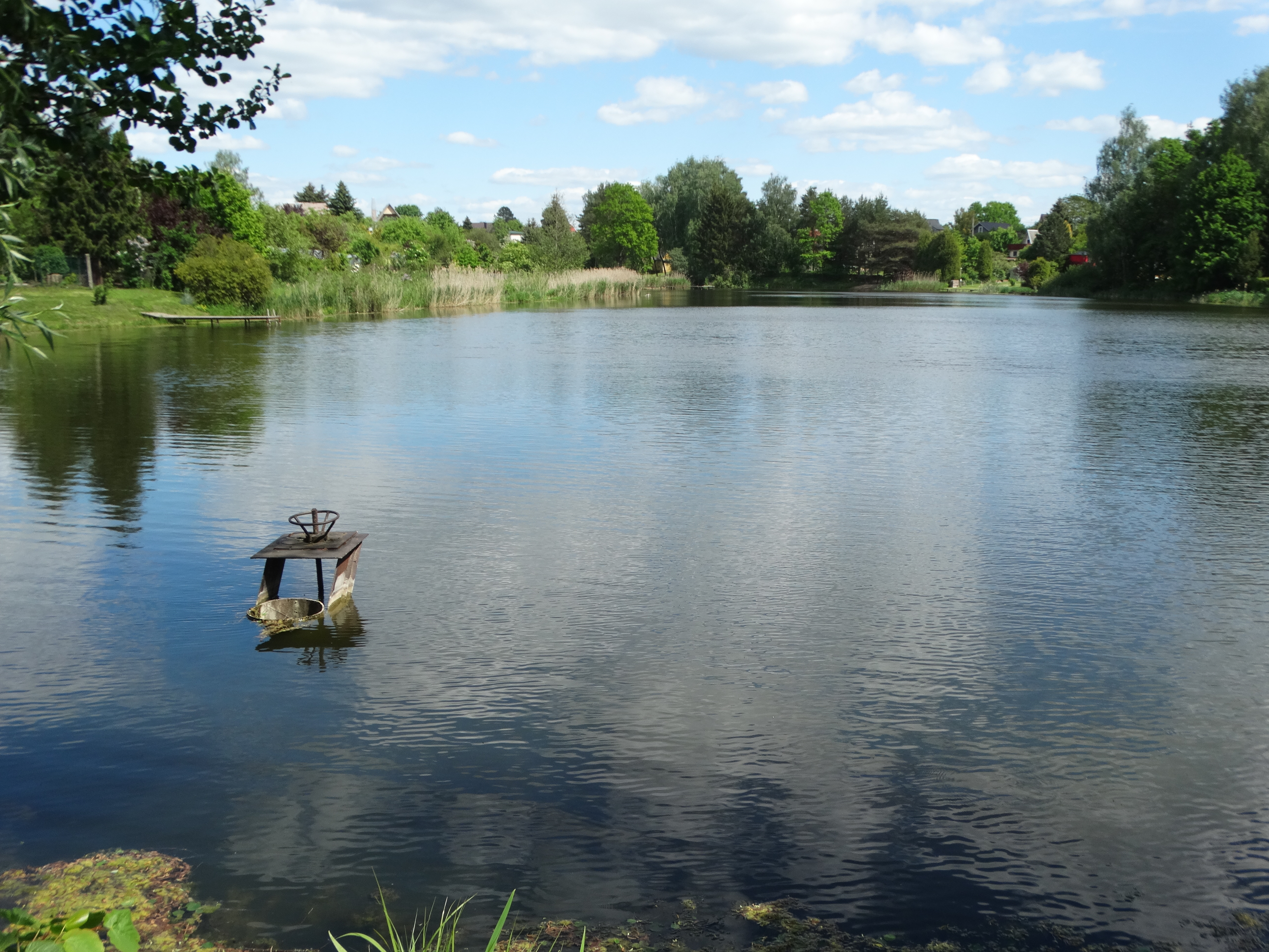 Laumėnai, pond, Kaunas district, Lithuania